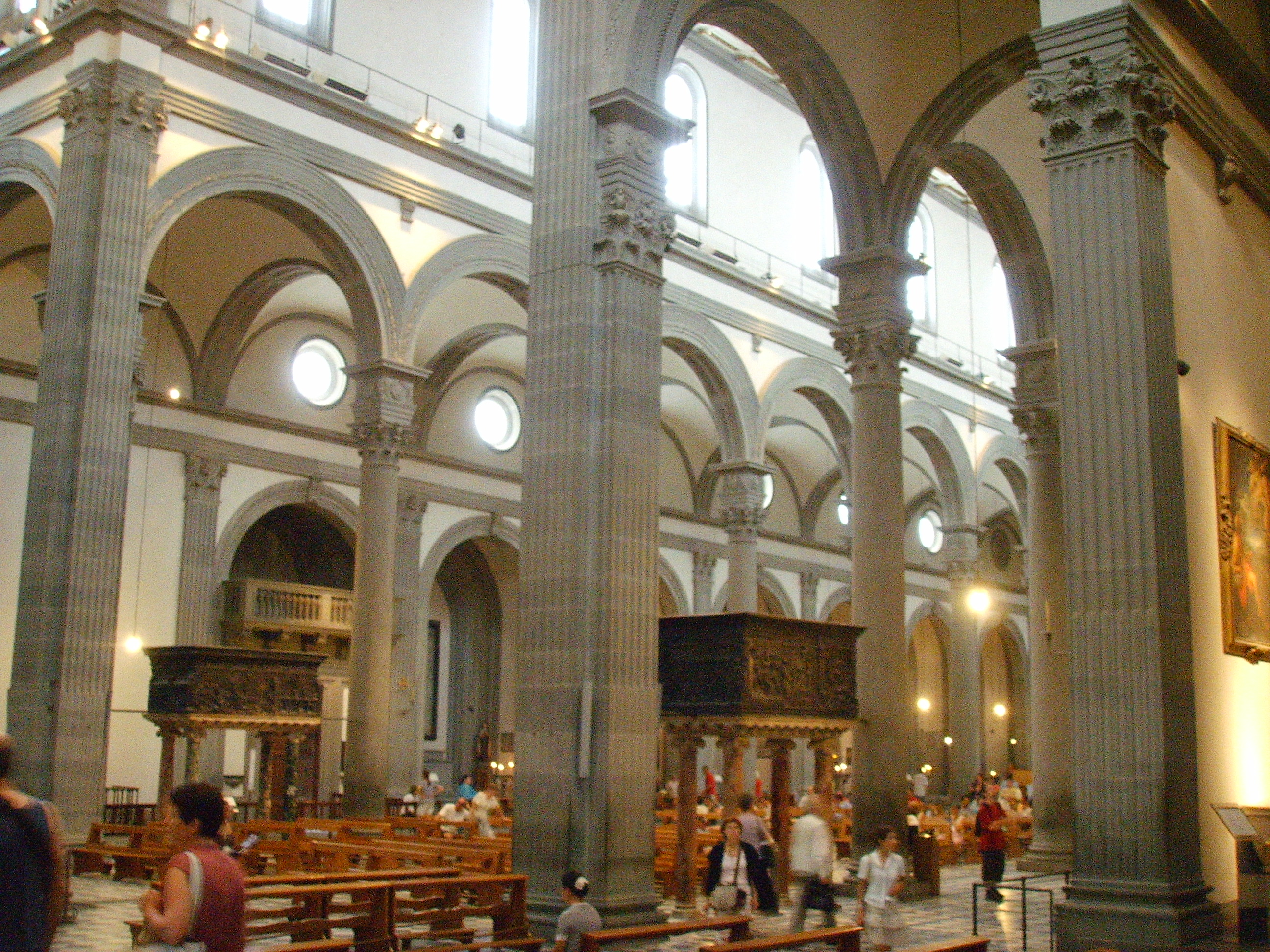 San Lorenzo Church, inside view in Florence, Italy